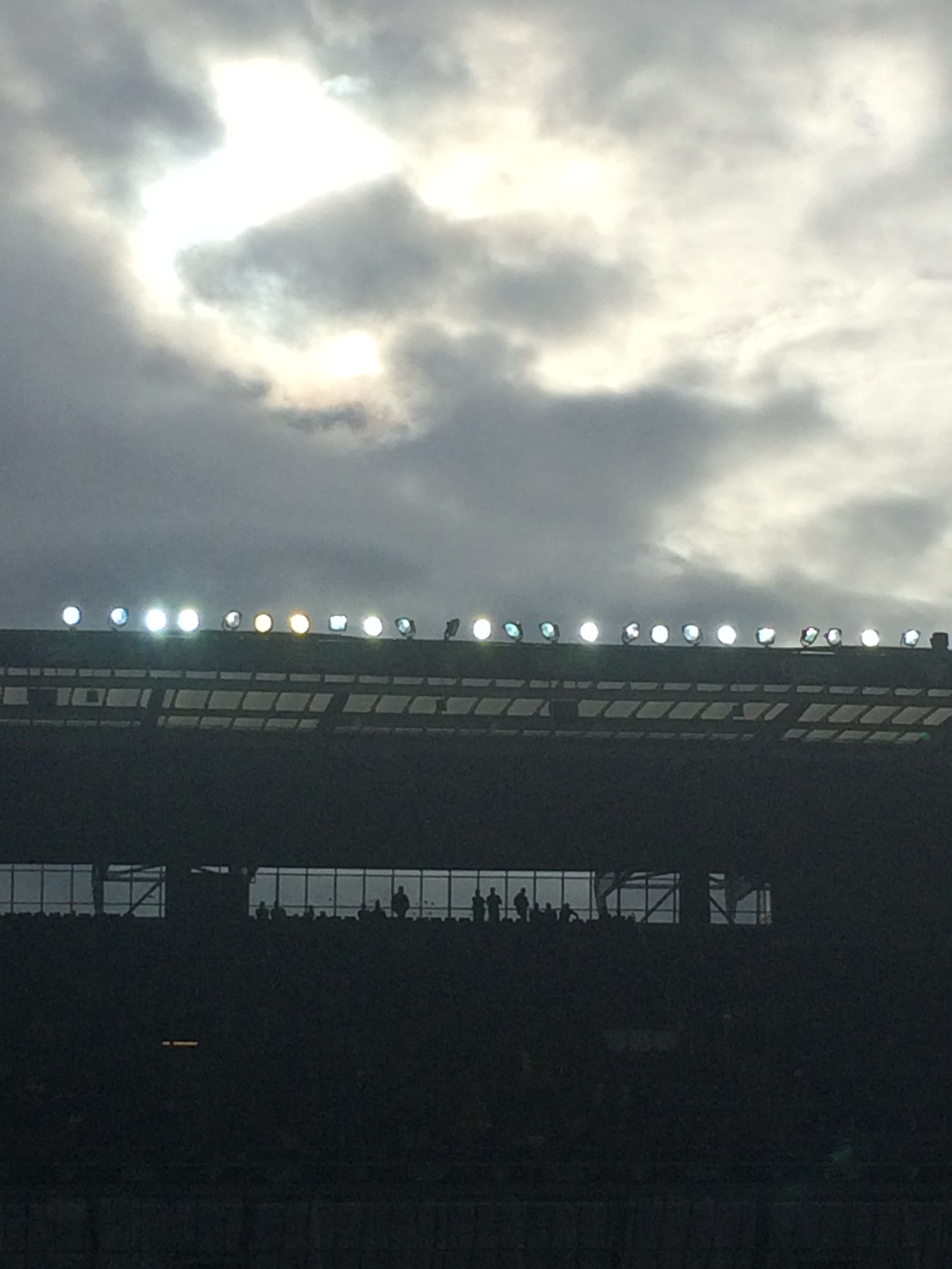 The lights at Brøndby Stadium